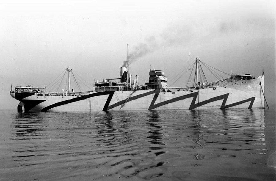 At anchor during her trials 30 October 1918 after construction by the Western Pipe and Steel Co., San Francisco, California. Note the wartime rig with a single topmast stepped on one of the kingposts near the stack. National Archives photo